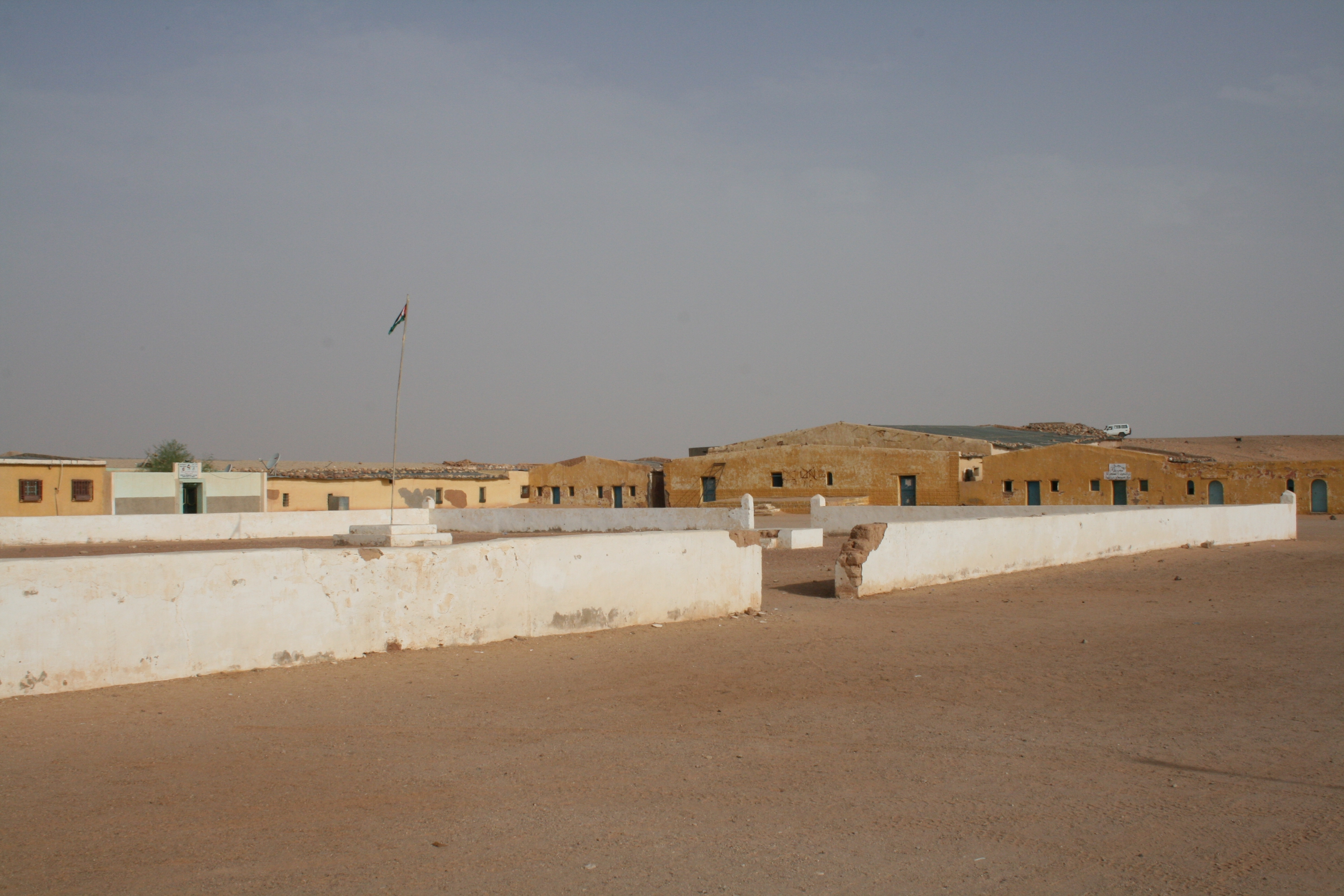 27 February School in Tifariti — that the 27 February refugee camp has grown around, Western Sahara. Taken in August 2009.